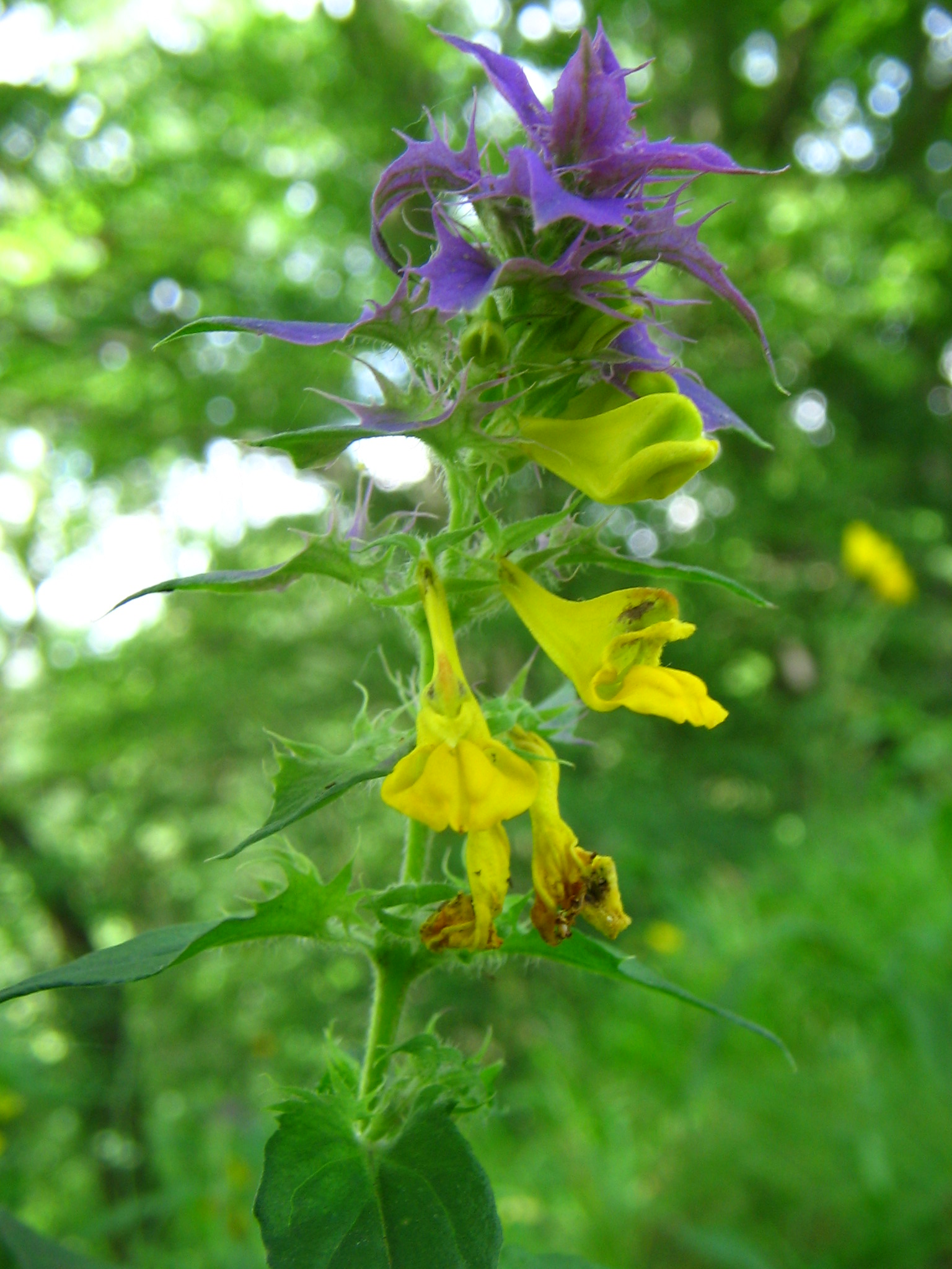 Melampyrum nemorosum photo: 12 July, 2005, Moravian Karst, Czech Republic